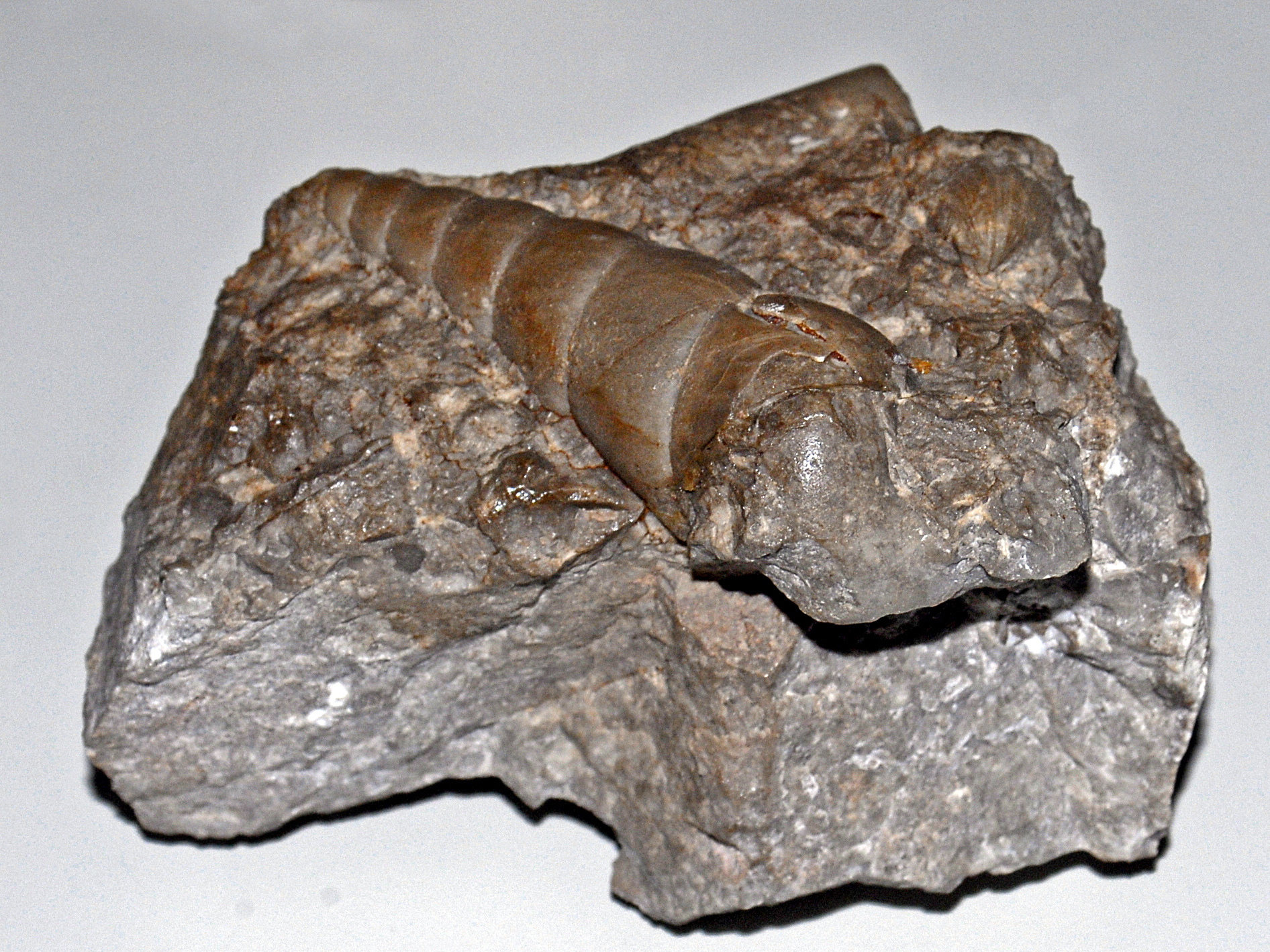 Fossil of Chemnitzia from Ladinian of Val di Prada (Lecco), on display at the Museo Civico di Storia Naturale of Lecco